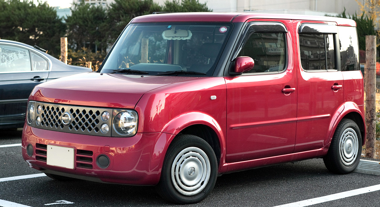 Nissan Cube ( Z11 )